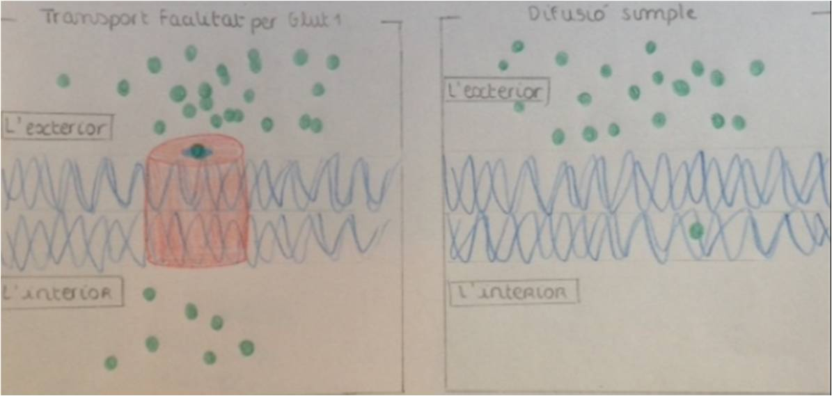 odjodojodsjdioif